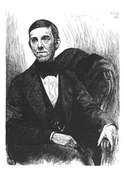 Engraving of author Oliver Wendell Holmes, Sr. from Life and Letters of Oliver Wendell Holmes by John Torrey Morse, published by Houghton, Mifflin and company, 1896.